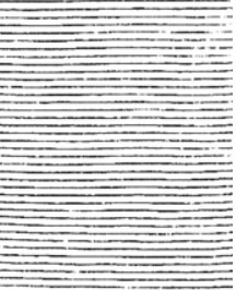 An enlarged sky section from a drawing from 1873 that includes dense and parallel lines. At low magnification, the lines form a bright pattern with the screen pixel matrix.